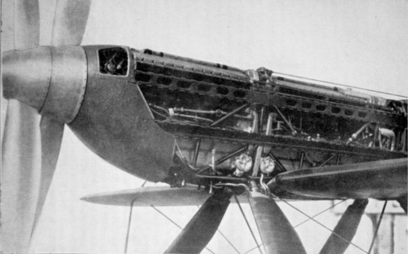 FIAT AS.6